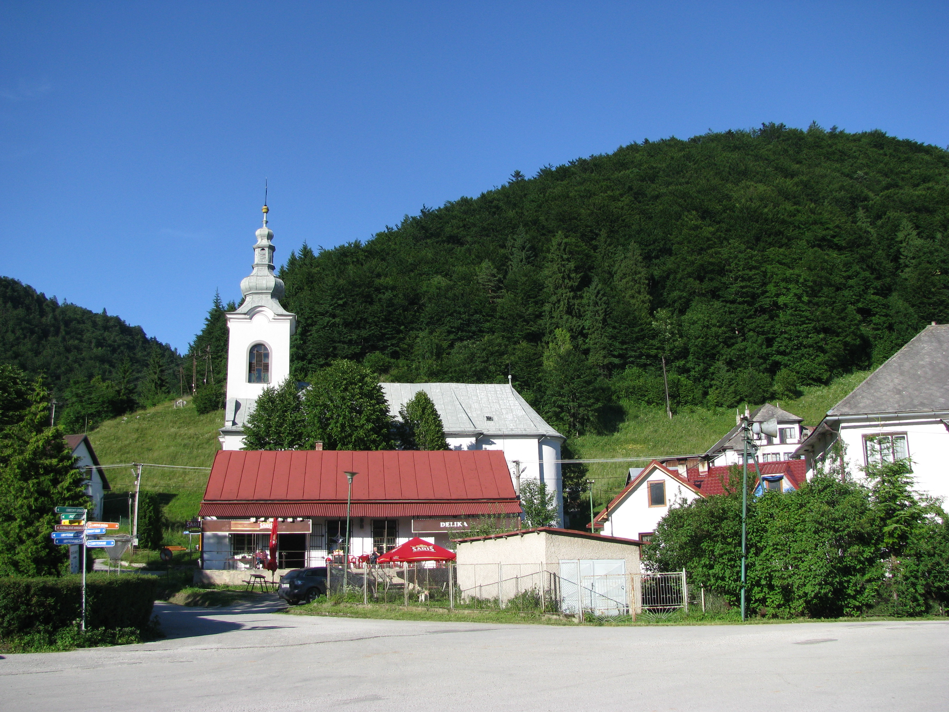 Church in Stratena, Slovakian Paradise